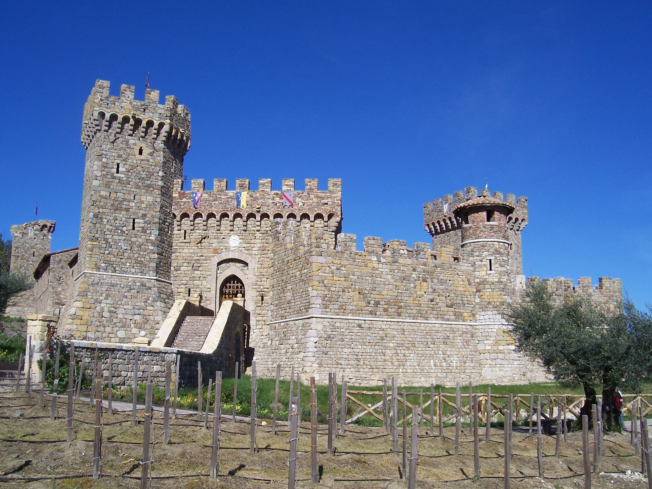 Front of the Castello di Amorosa in Spring 2009